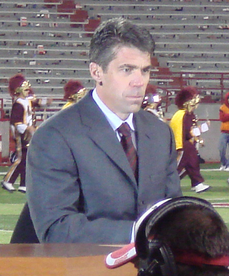 ESPN College GameDays Chris Fowler in Lincoln, Nebraska: home of the Nebraska Cornhuskers football team. The Spirit of Troy USC marching band crosses in the background.